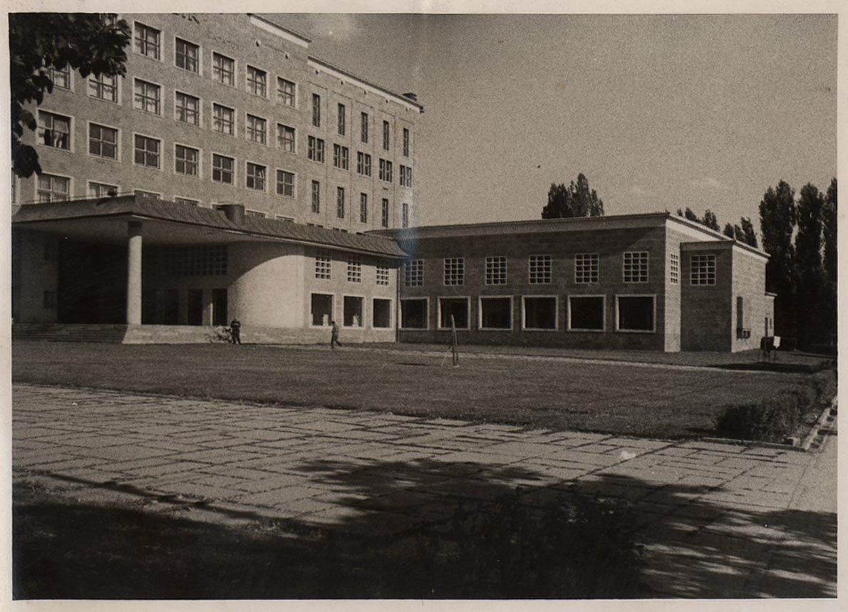 History and Geography, Ankara University SALT Research, Ali Saim Ülgen Archive Ankara Dil ve Tarih-Coğrafya Fakültesi SALT Araştırma, Ali Saim Ülgen Arşivi